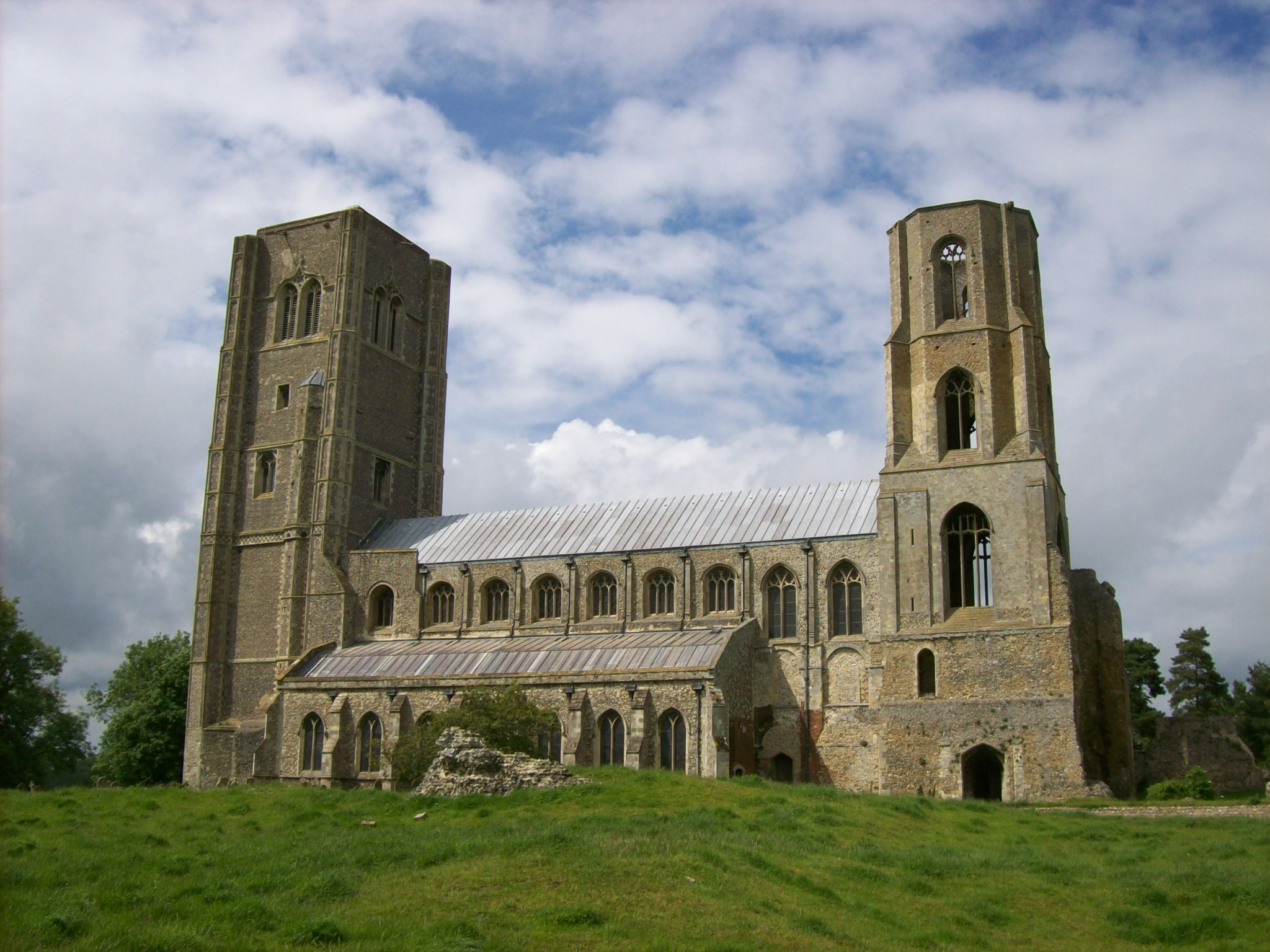 Wymondham Abbey